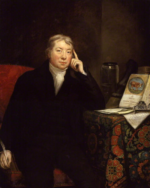 Edward Jenner (1749-1823), Discoverer of vaccination.